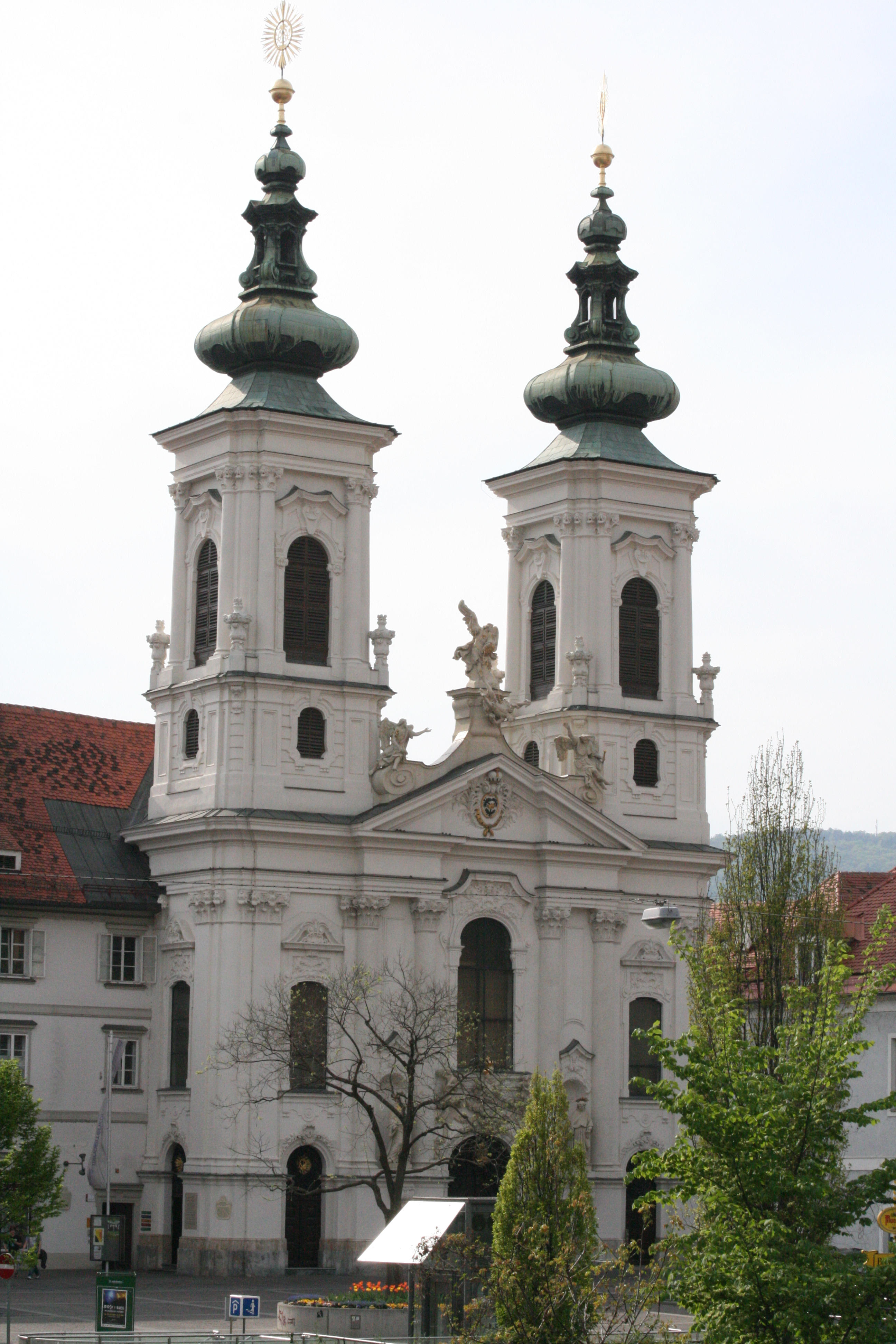 "Mariahilferkirche" in Graz, Austria, Europe